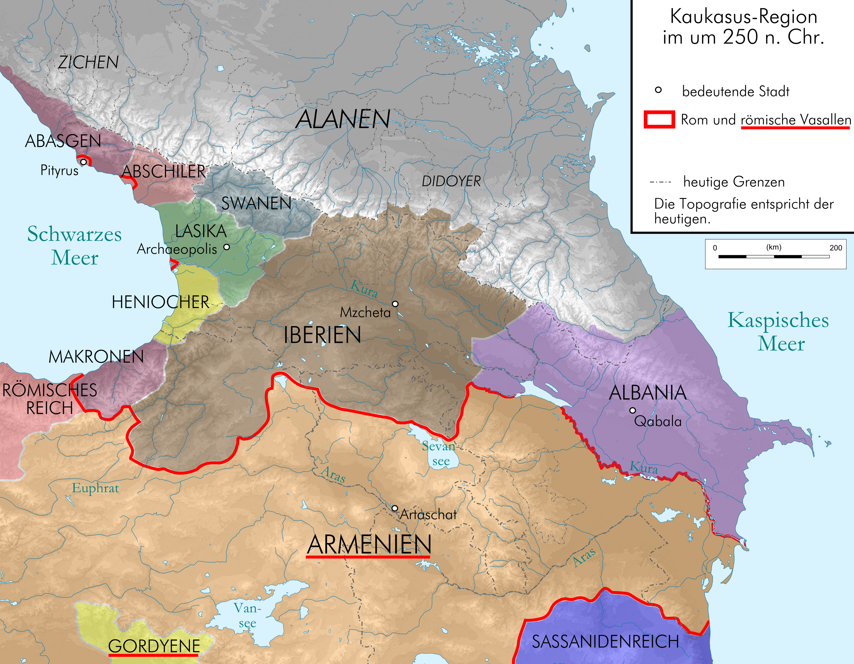 Map of Caucasus around 250 AD in German.